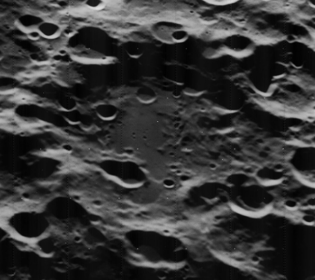 Oblique view of Sternfeld, on the far side of the moon, facing west.